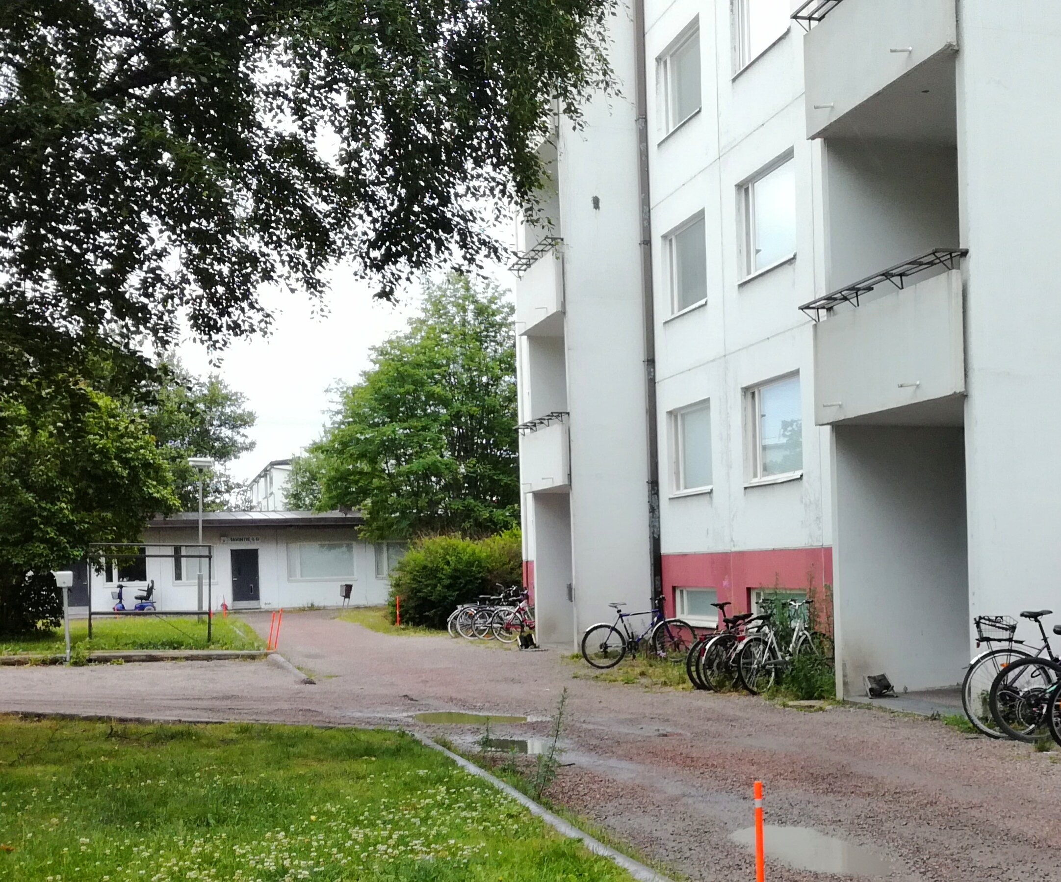 A row house and an apartment building in Kivistö, Halssila, Jyväskylä. Both were built in the 1970s.